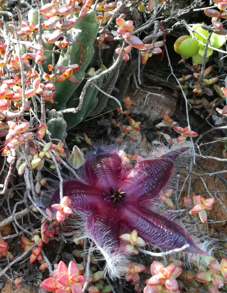 Stapelia hirsuta - Buffelspoort gorge